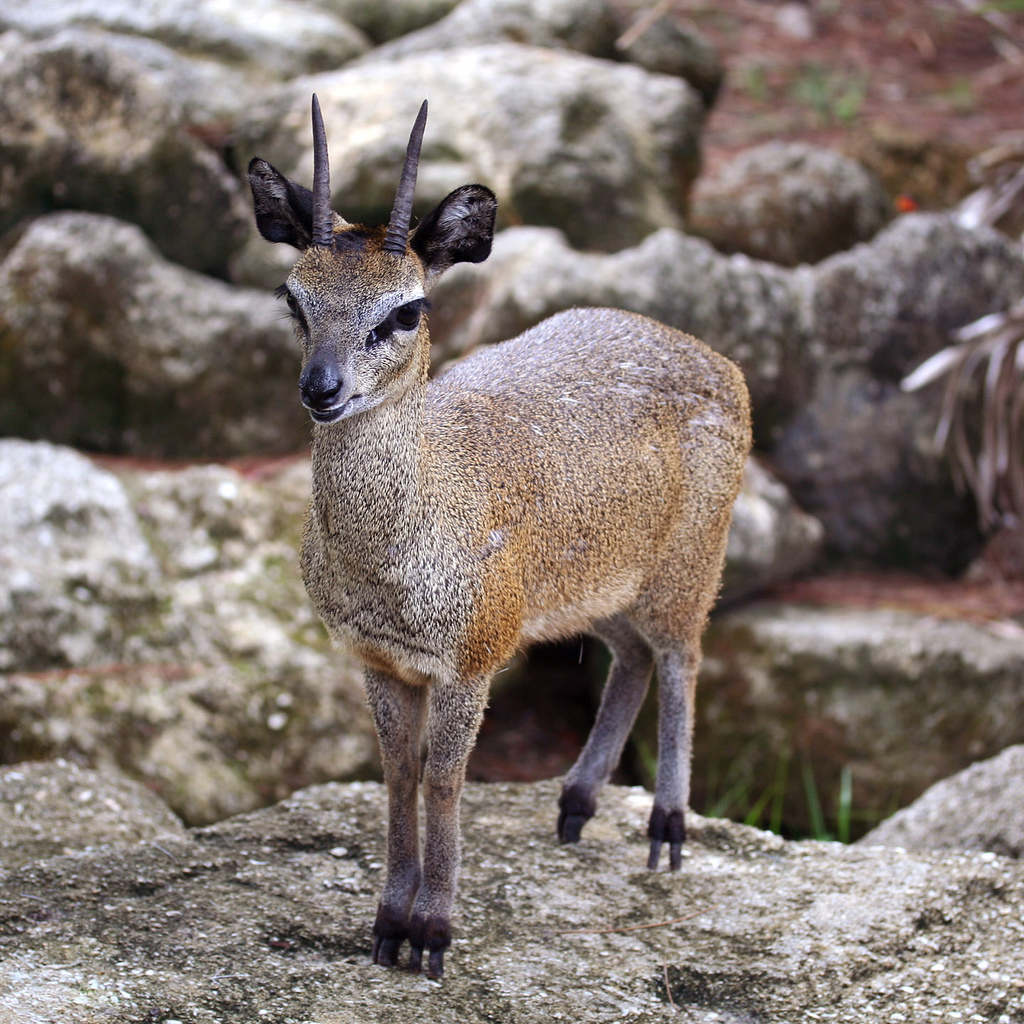 A klipspringer, Brevard Zoo, Melbourne, Florida, USA